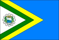 Pr-itaipulandia-bandeira